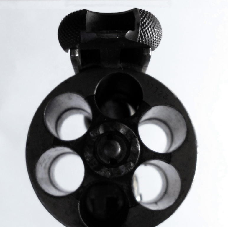 S&W No 3 Cylinder